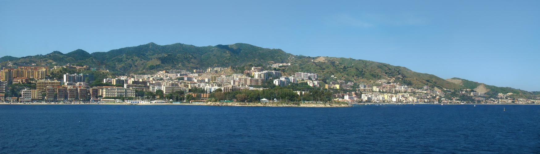 Messina, Sicily, Italy. View from the ferry approaching on the Strait of Messina.